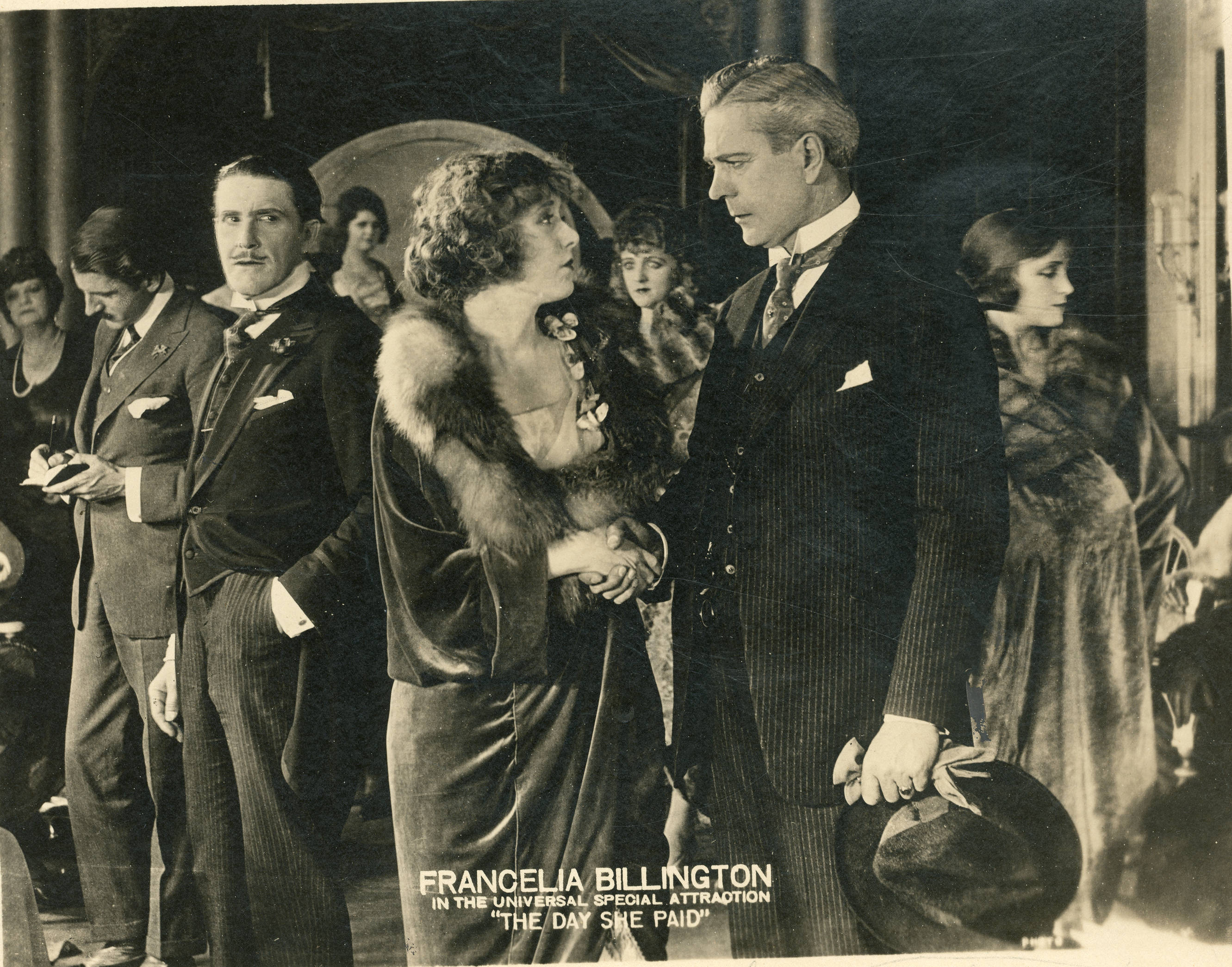 A scene from the American drama film The Day She Paid (1919), which played at the Colonial Theater, Seattle. Date stamped Mar. 11, 1920. Includes Francelia Billington and Charles Clary. Subjects: motion pictures, actresses, actors